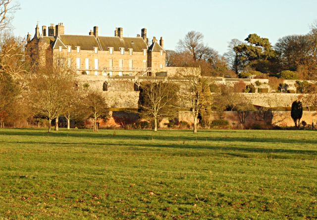 Balcaskie House Balcaskie House from the South. Extensively rebuilt and extended in the years 1665/80 by the Surveyor General of the Royal Works in Scotland, Sir William Bruce. In the late 1690s the property passed into the hands of the current owners the Anstruthers.